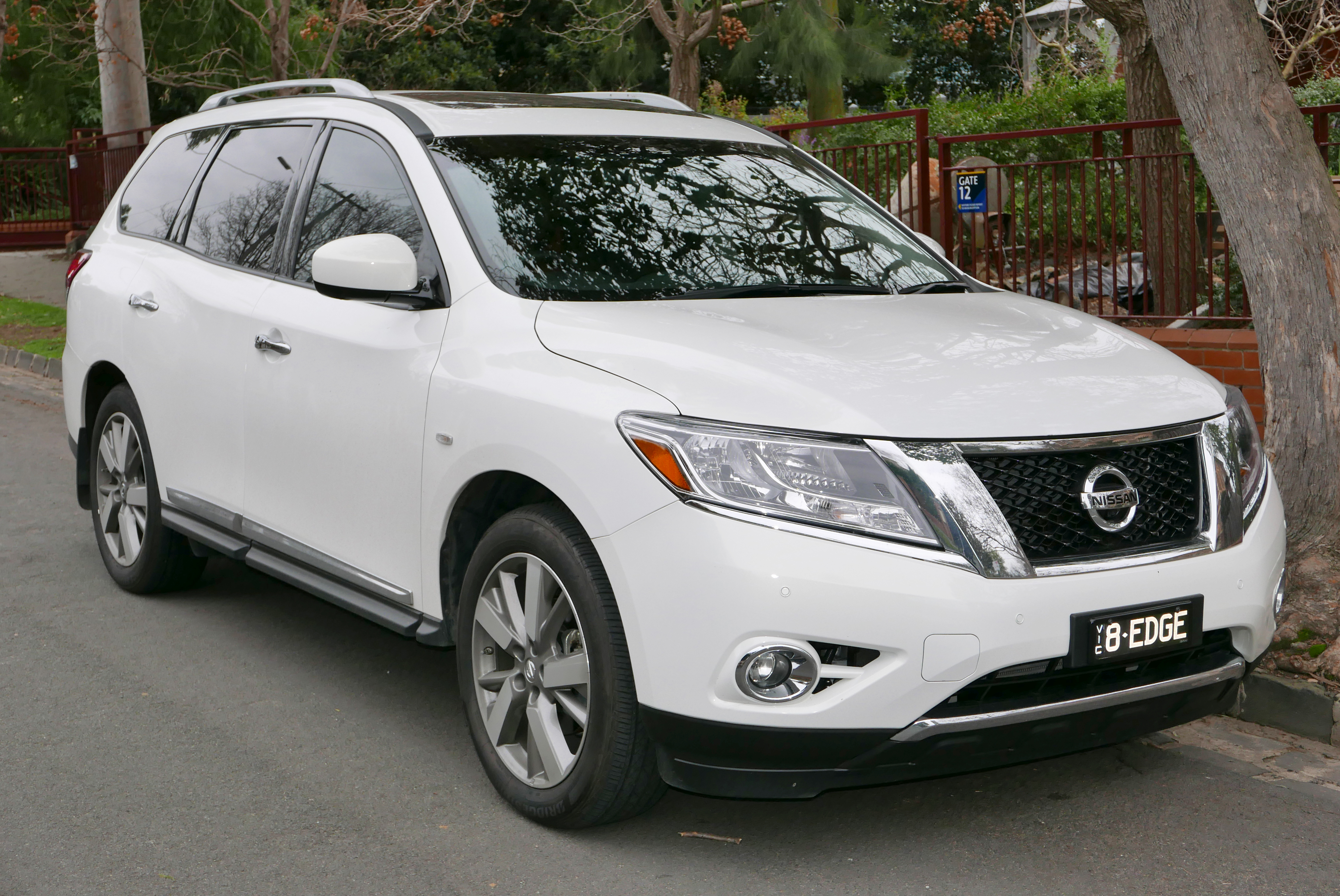 2014 Nissan Pathfinder (R52 MY14) Ti 4WD wagon. Photographed in Kew, Victoria, Australia. Vehicle registration enquiry resultsJurisdictionVictoriaRegistration8EDGEChassis code5N1AR2MM9EC642995Engine codeVQ35503361YCompliance date2014-06Year of manufacture2014